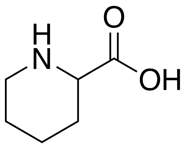 Structure of piperidine-2-carboxylic acid (pipecolic acid)